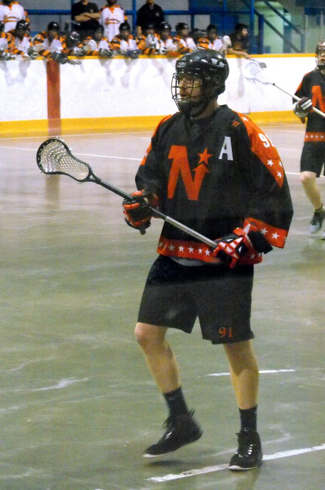 These images of Ontario Senior B Lacrosse Action action during the 2014 season are taken by Devan Mighton.